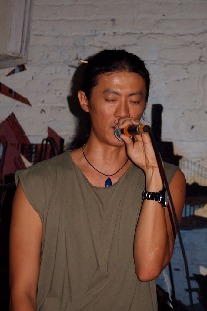 Japanese hip-hop artist Shing02 performing at b.p.m. on September 24, 2011 in New York City.